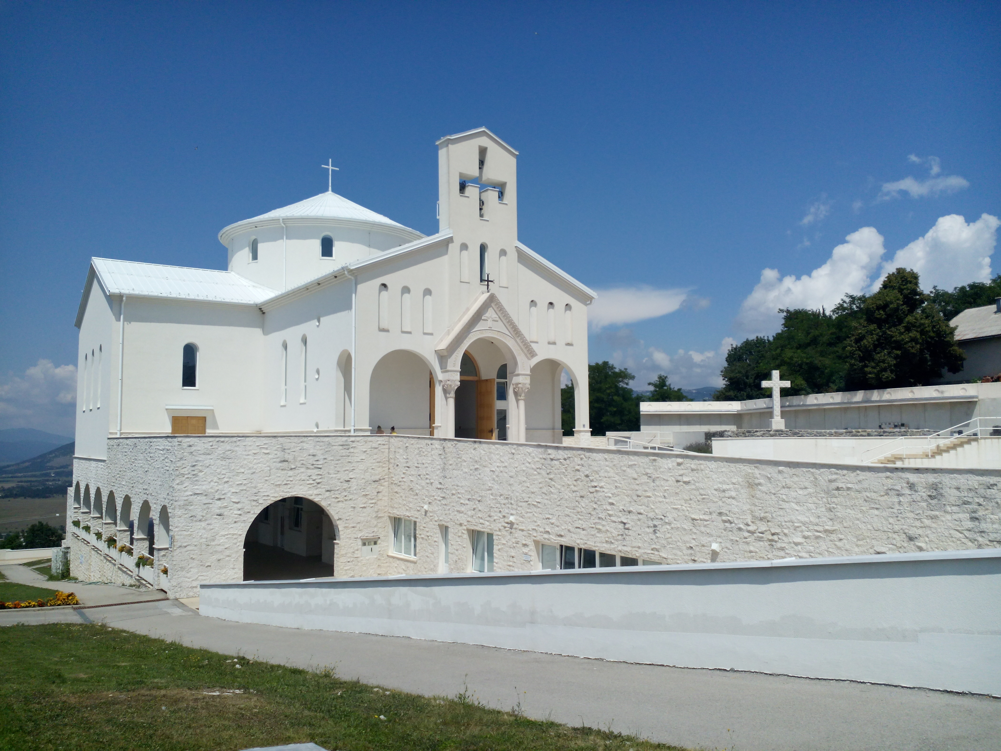 Church of Croatian Martyrs in Udbina.